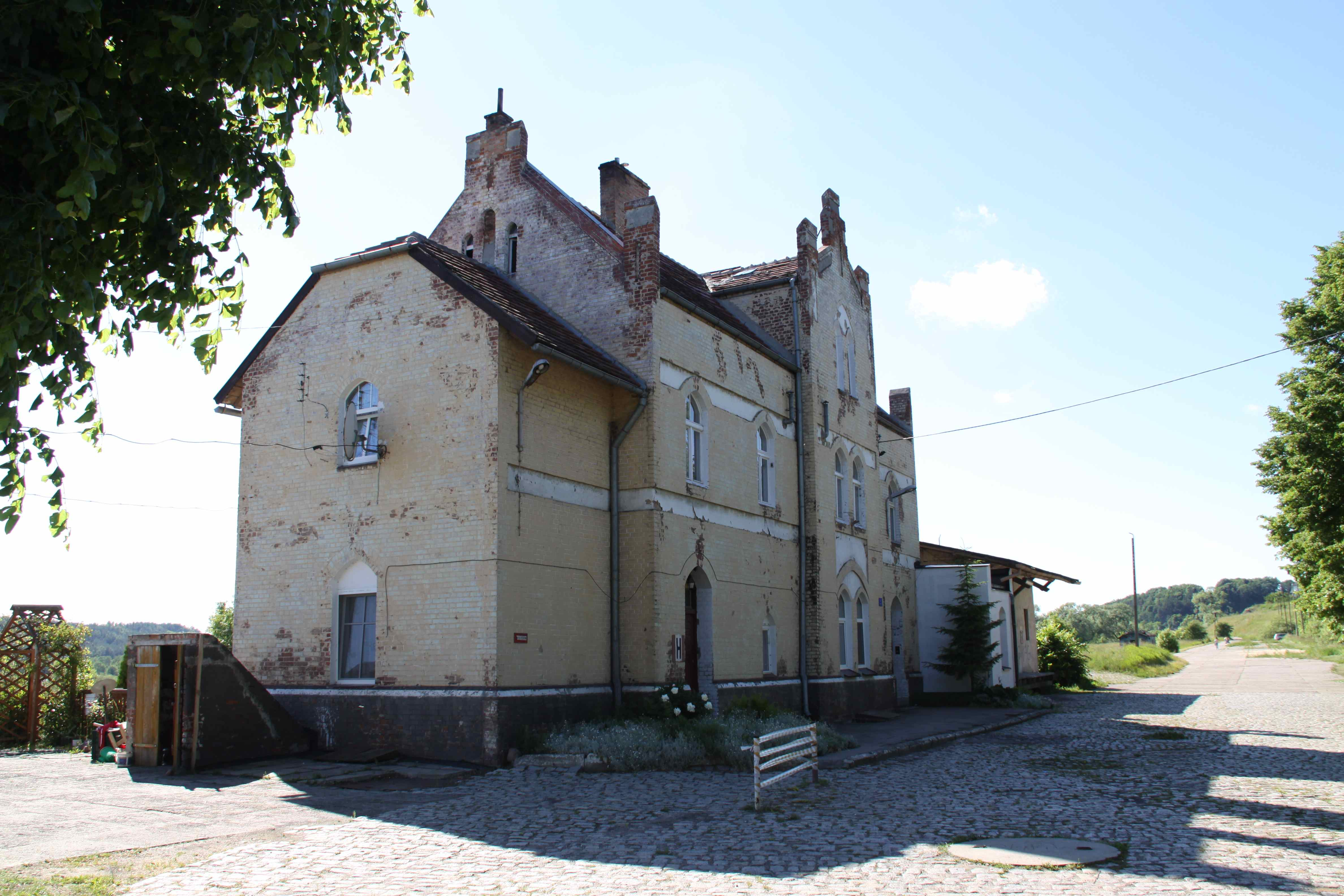 Bahnhof Mewe / Train station Gniew